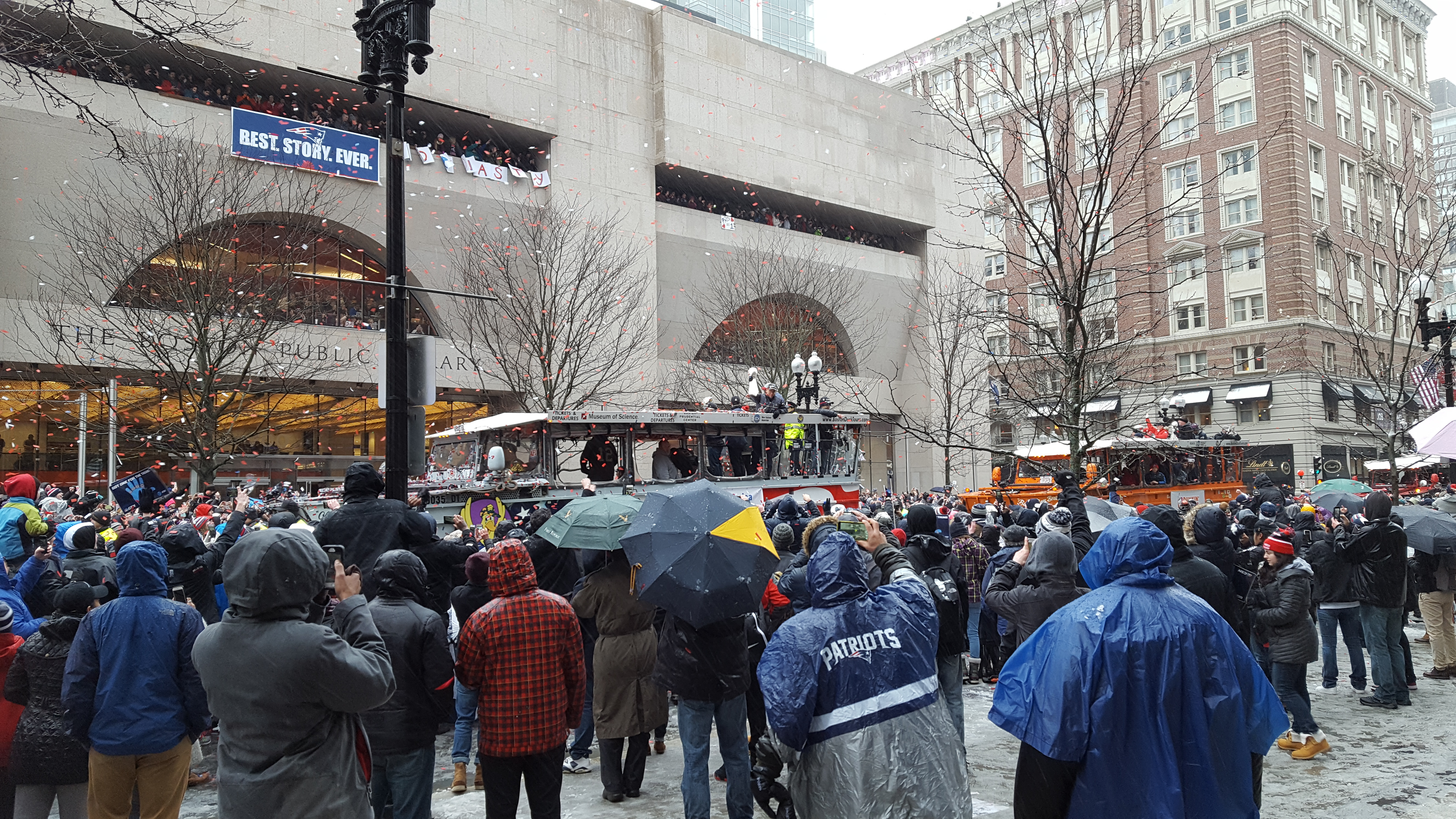 The New England Patriots Victory Parade on Boylston Street in Boston, Massachusetts Tuesday February 7, 2017.